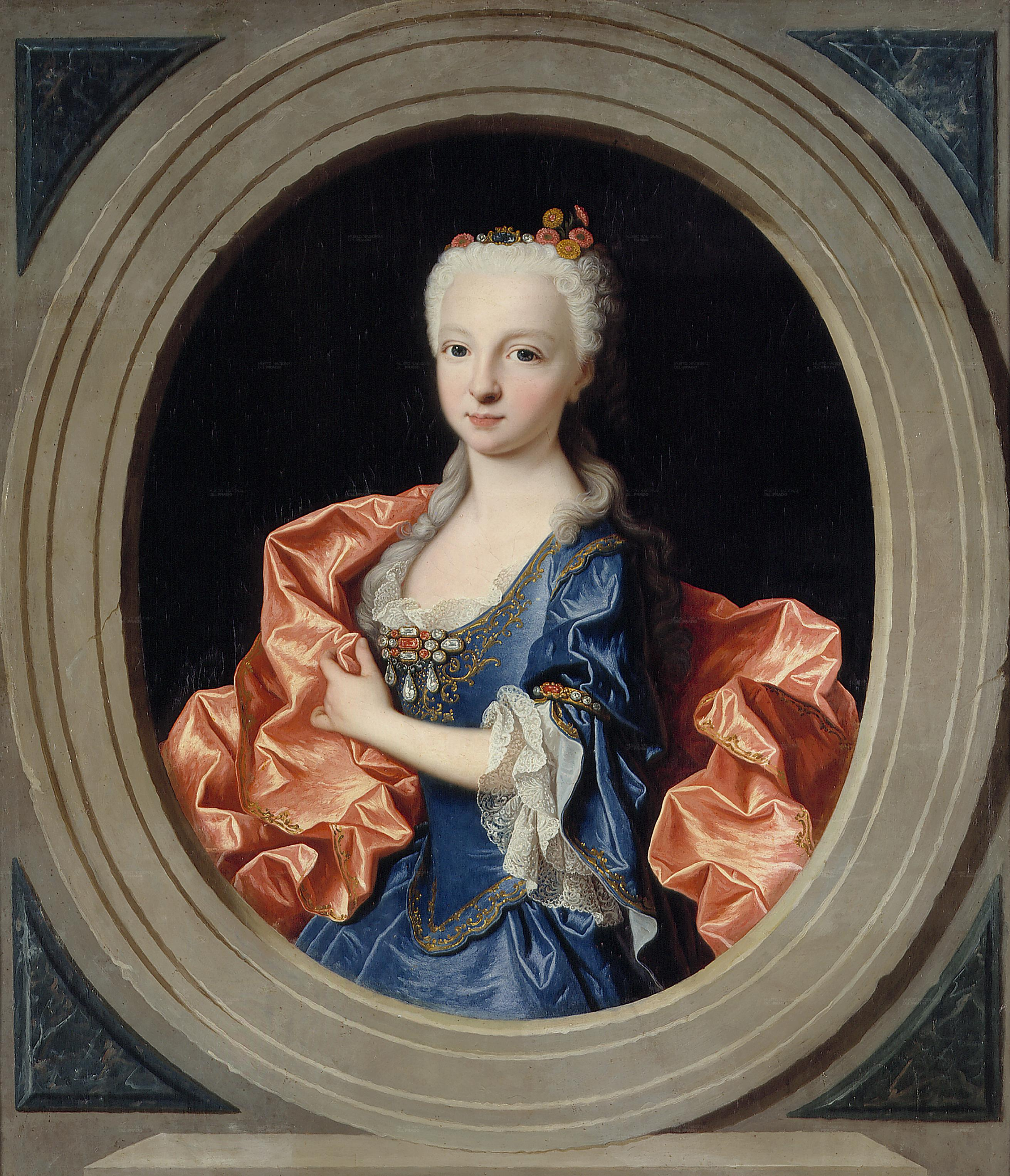 Infanta Maria Teresa Antonia Rafaela of Spain, Dauphine of France (Madrid, 11 June 1726 - Versailles, 22 July 1746) was Dauphine of France as spouse of Louis, Dauphin of France. In France, she was known simply as Madame la Dauphine.